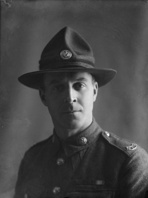 Portrait of James Crichton, awarded the Victoria Cross: France, 30 September 1918.